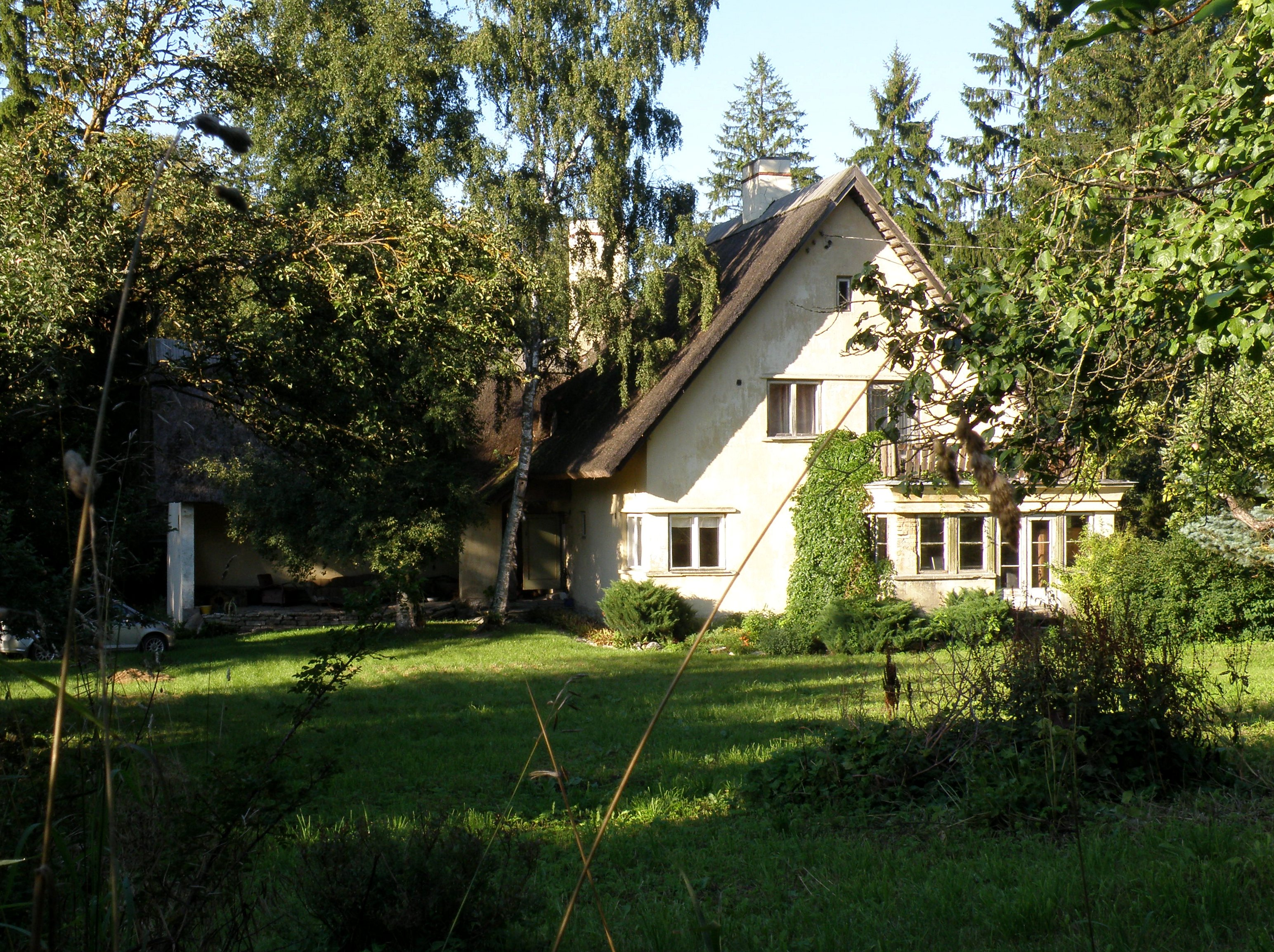 Tähetorni 6